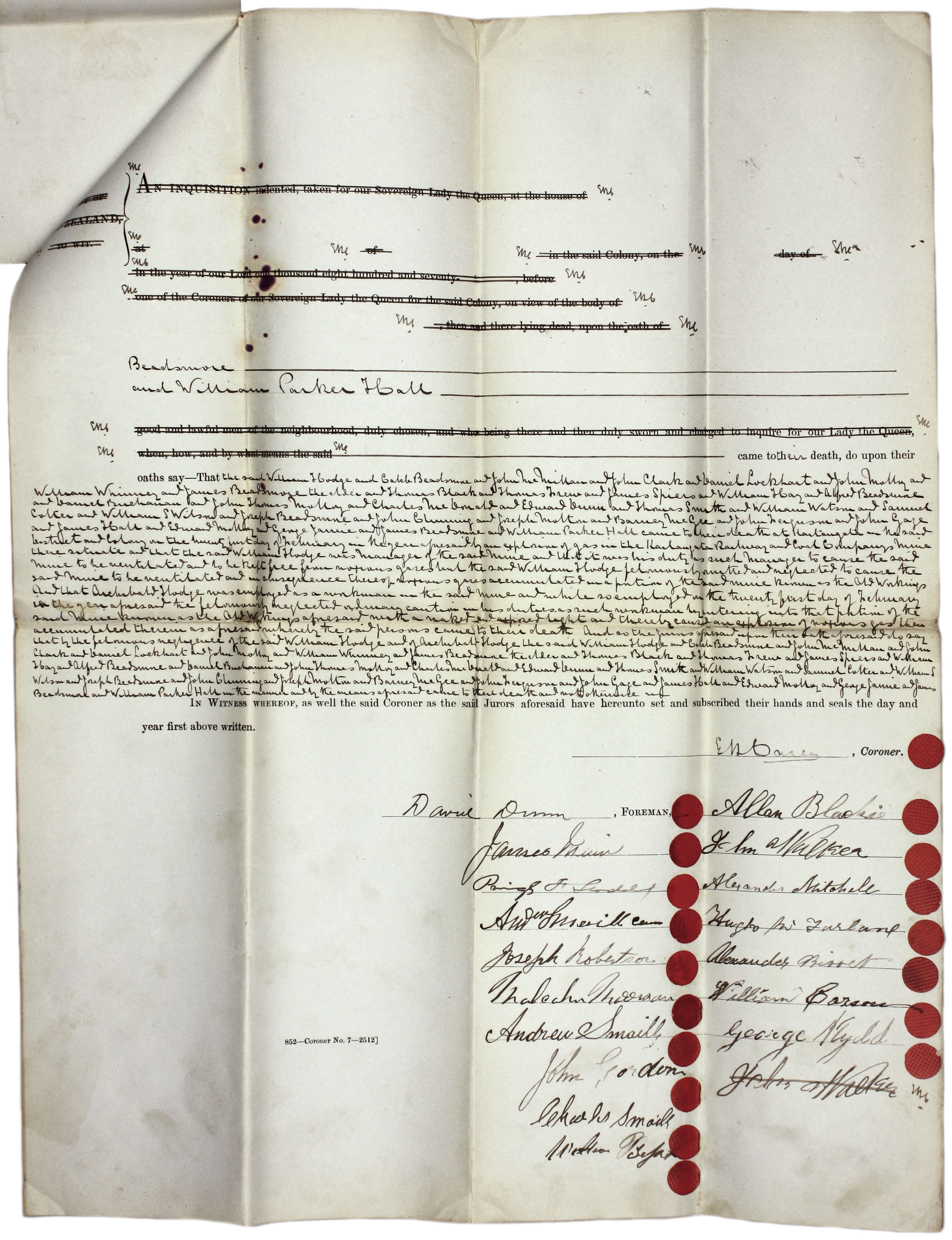 On 21 February 1879, a violent explosion at the Kaitangata Coal and Railway Company mine within the small town of Kaitangata led to the death of 34 miners. Kaitangata is on the left bank of the Clutha River ten kilometres south east of Balclutha in Otago, New Zealand. The subsequent enquiry into the death of the miners found that conditions in the mine had been poor, with inadequate ventilation, the use of candles in an area known for the build-up of gas and lack of exits. This record shown here is from the inquest file for William Hodge and 31 others who died. There is a separate inquest file for 2 other miners caught up in the disaster. This item is from our Dunedin office Reference: DAAC D256 443s For updates on our On This Day series and news from Archives New Zealand, follow us on Twitter Material supplied by Archives New Zealand